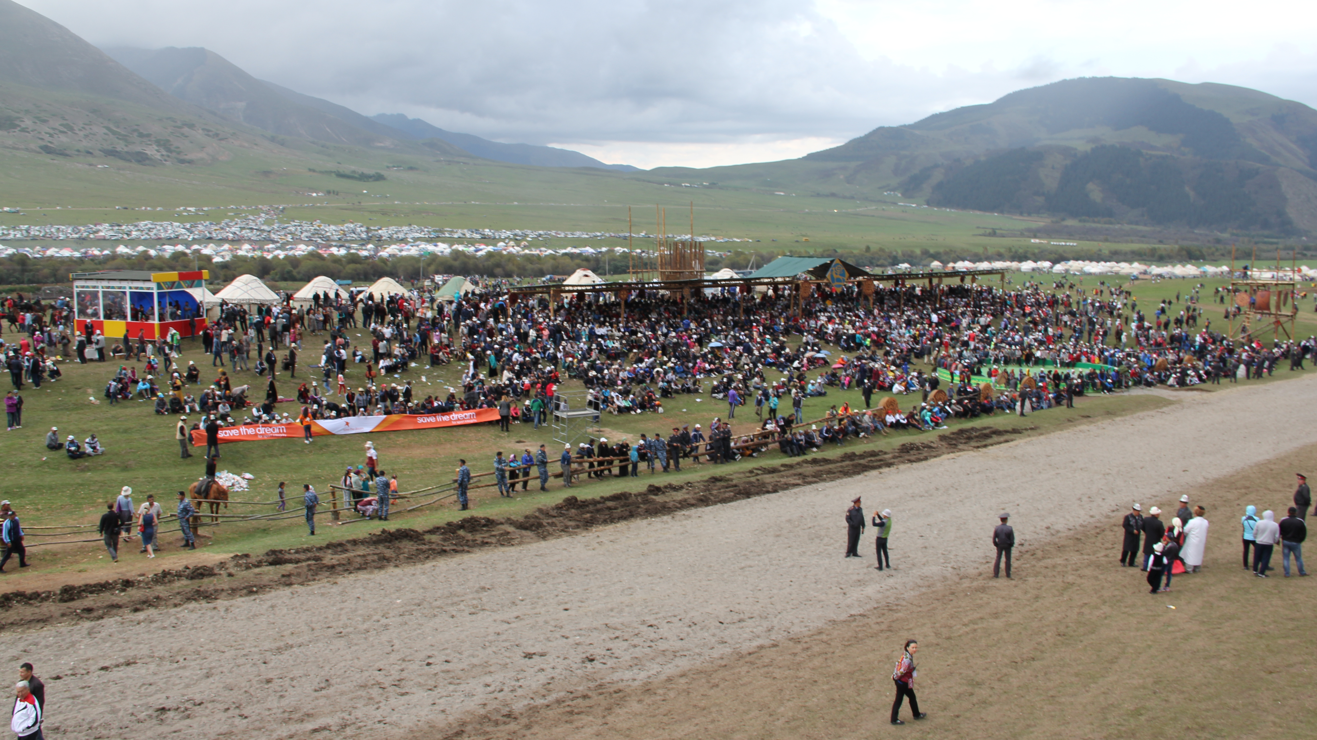 Save the Dream in Nomadic village